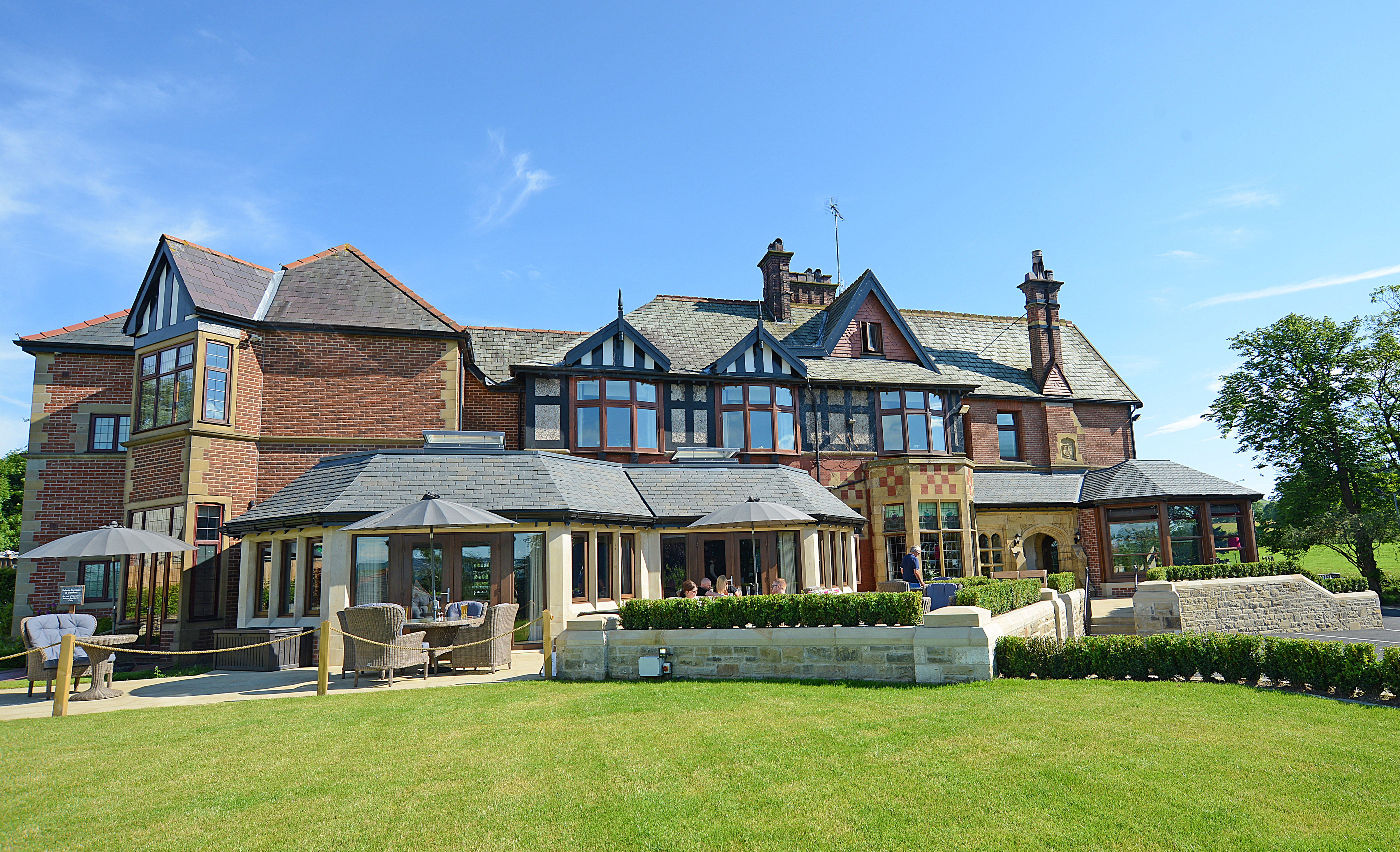 Northcote, a luxury, independent 26 bedroomed country house hotel located in the Ribble Valley, Lancashire